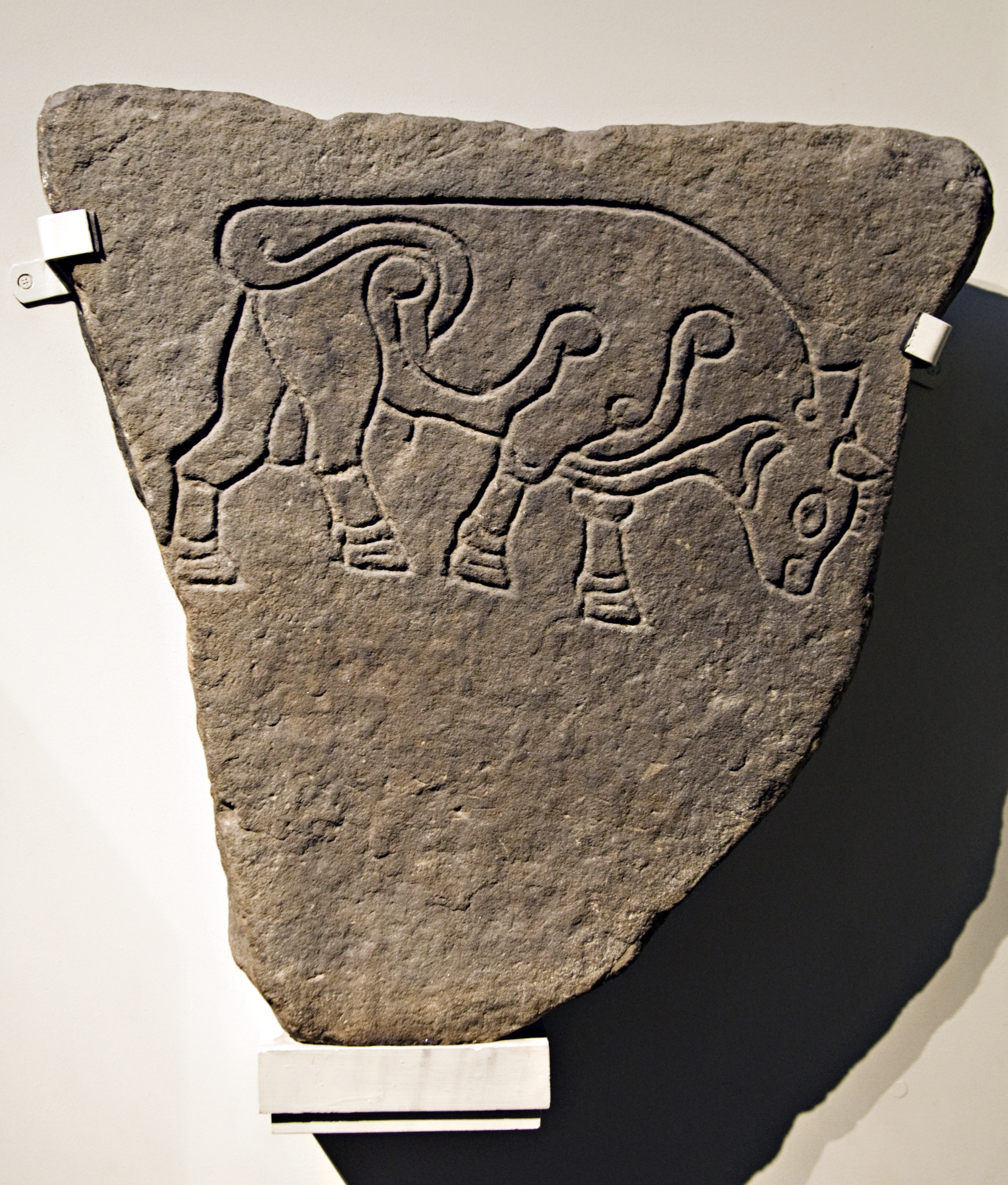 Pictish carving, the "Burghead Bull", now in the British Museum. Tag on exhibit says: "Pictish carving: 'The Burghead Bull', 7th century AD, from Burghead, Morayshire, Grampian, Scotland." and "MME 1861,10-24,1" See BM database entry for more details.